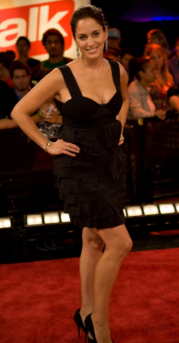 Chantal Kreviazuk at the eTalk Festival Party, during the Toronto International Film Festival.